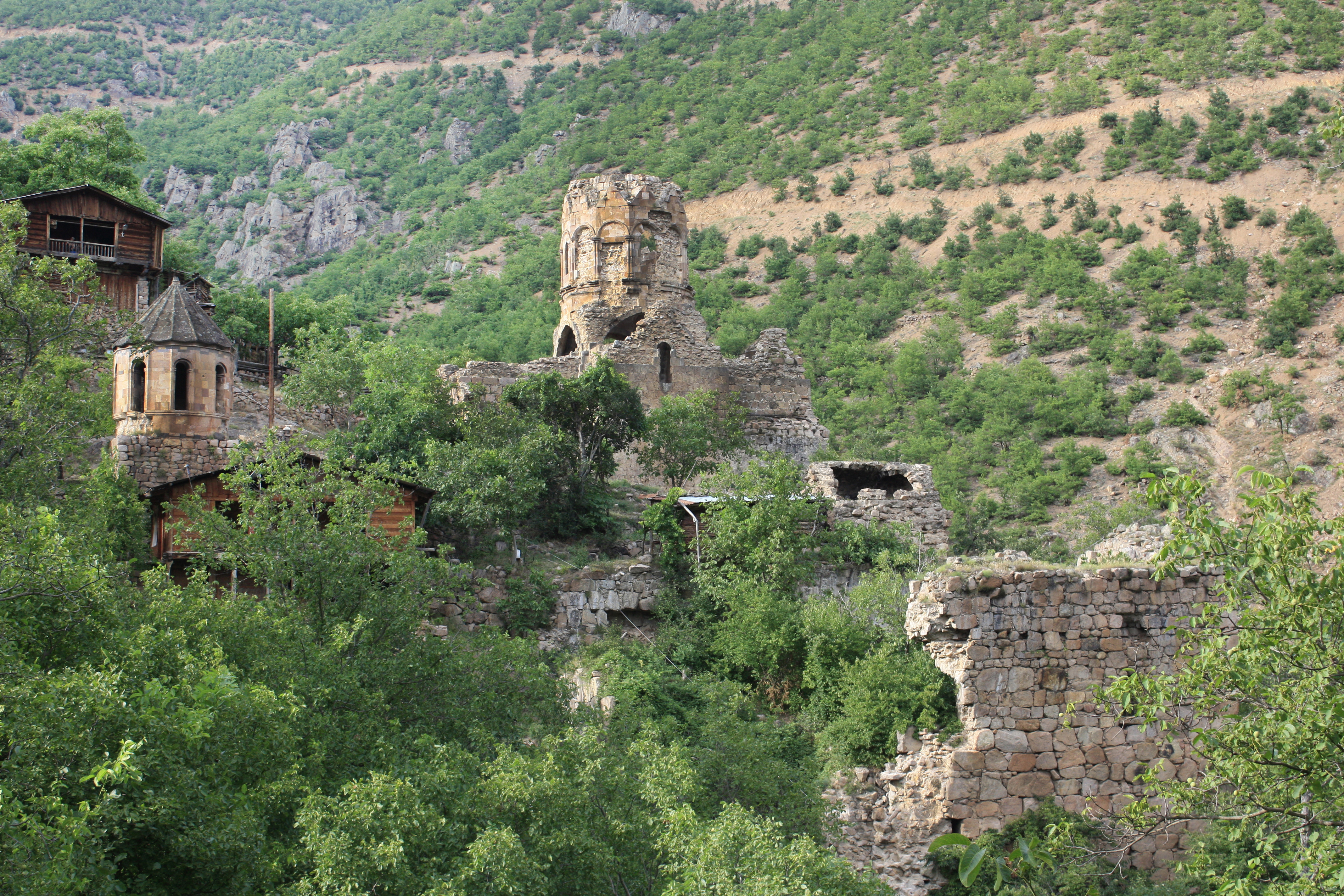 Georgian monastery Khandzta in Tao-Klarjeti. Created by Gregory of Khandzta, Khandzta monastery has become one of the most important cultural centers in province of Tao-Klarjeti. Nowadays the church is partly destroyed - the dome, which existed till 2007, has fallen down.